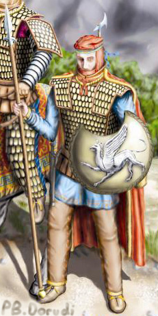 Artist impression of a Persian Immortal from the early period of the Achaemenid Empire.